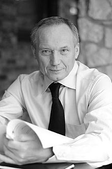 Ulad. Niaklajeu